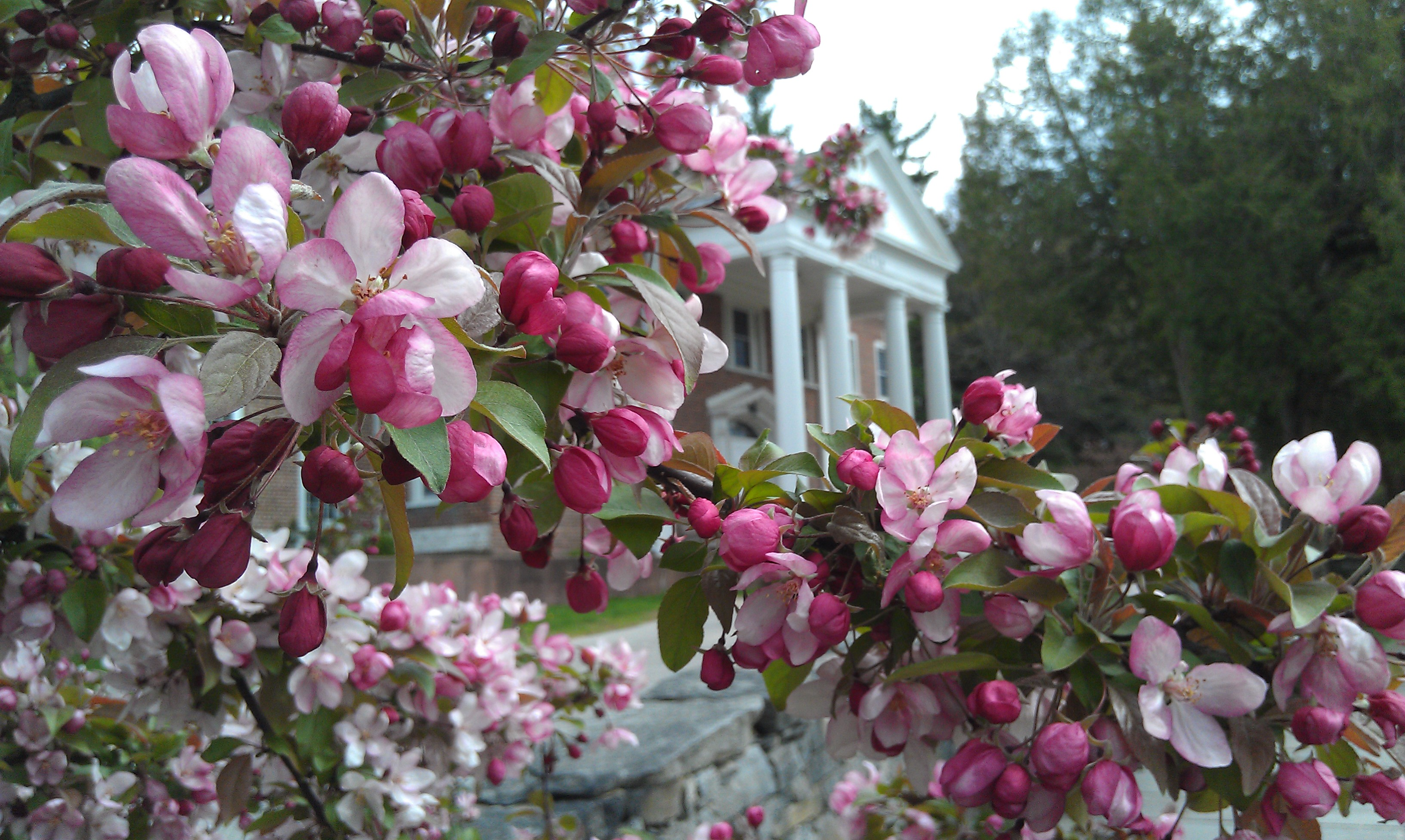 Insight Meditation Society's Retreat Center main building, in Barre, Massachusetts is visible in the backdrop amidst blossoming trees.